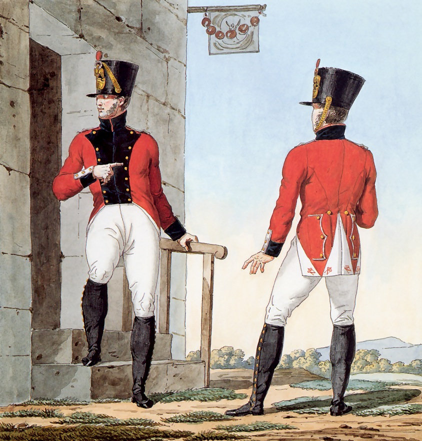 Part of a series chronicling the uniforms of Napoleon's Grande Armée.